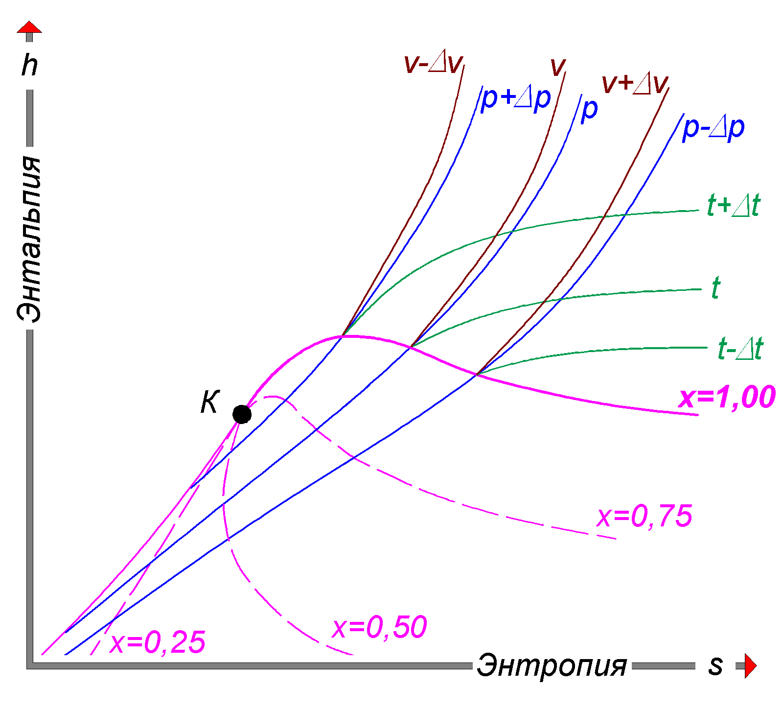 Structure of h, s-diagramm